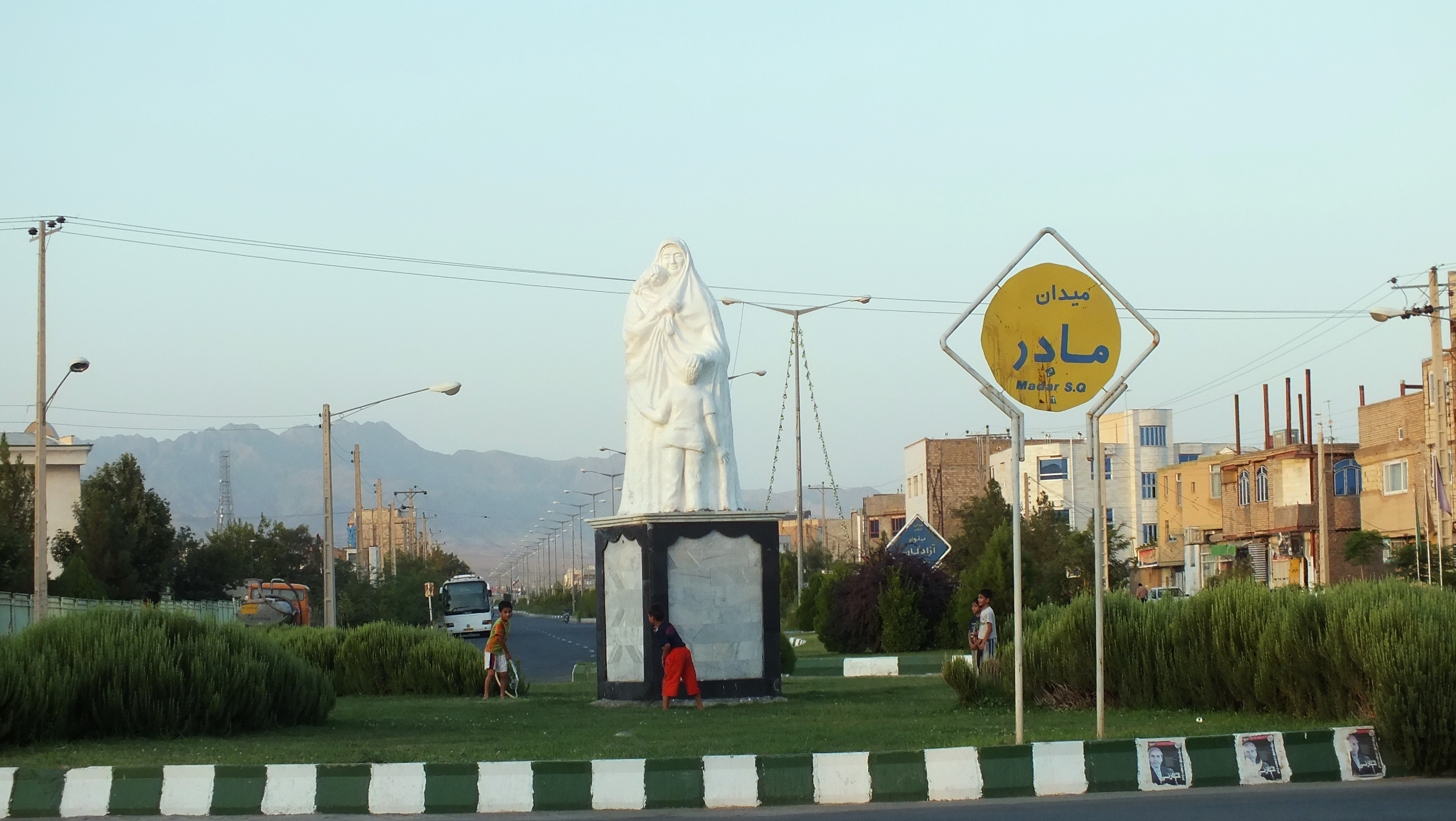 Mother sq - Kashamr